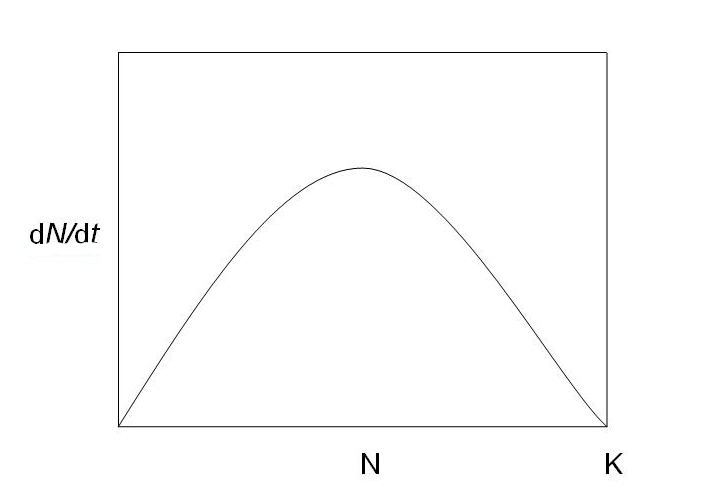 Graph showing a definition of carrying capacity used in basic ecology: population growth rate (dN/dt, ordinate) and population size (N, abscissa). From: Hixon, M.A.; Brian Fath (2008) "Carrying Capacity" in Encyclopedia of Ecology, Oxford: Academic Press, pp. 528-530 Retrieved on 6 March 2009. ISBN: 978-0-08-045405-4.